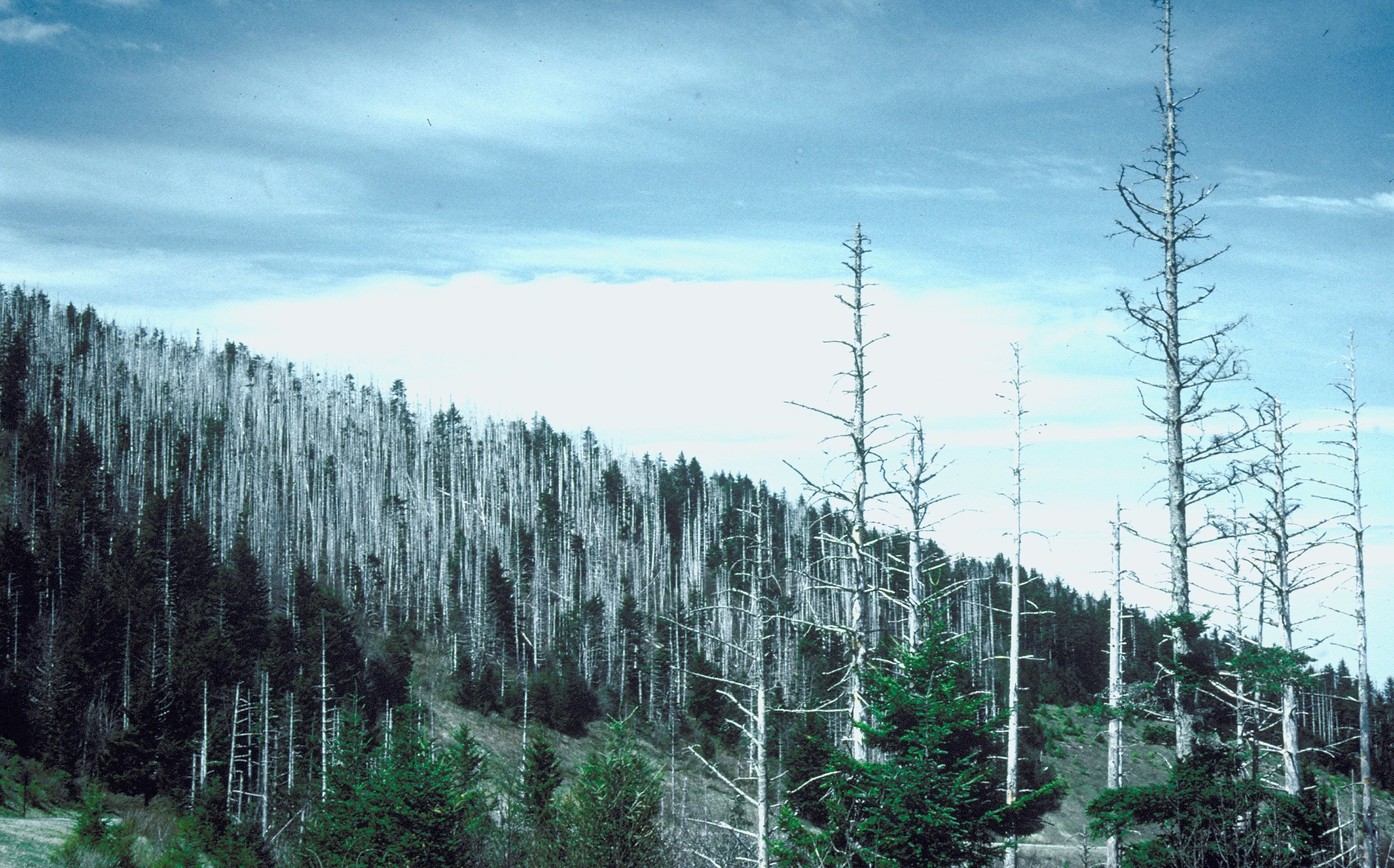 Adelges piceae Ratzeburg Common Name: balsam woolly adelgid Photographer: Robert L. Anderson, USDA Forest Service, United States Descriptor: Infestation Description: on Richland balsam at Mt. Mitchell Image taken in: North Carolina, United States